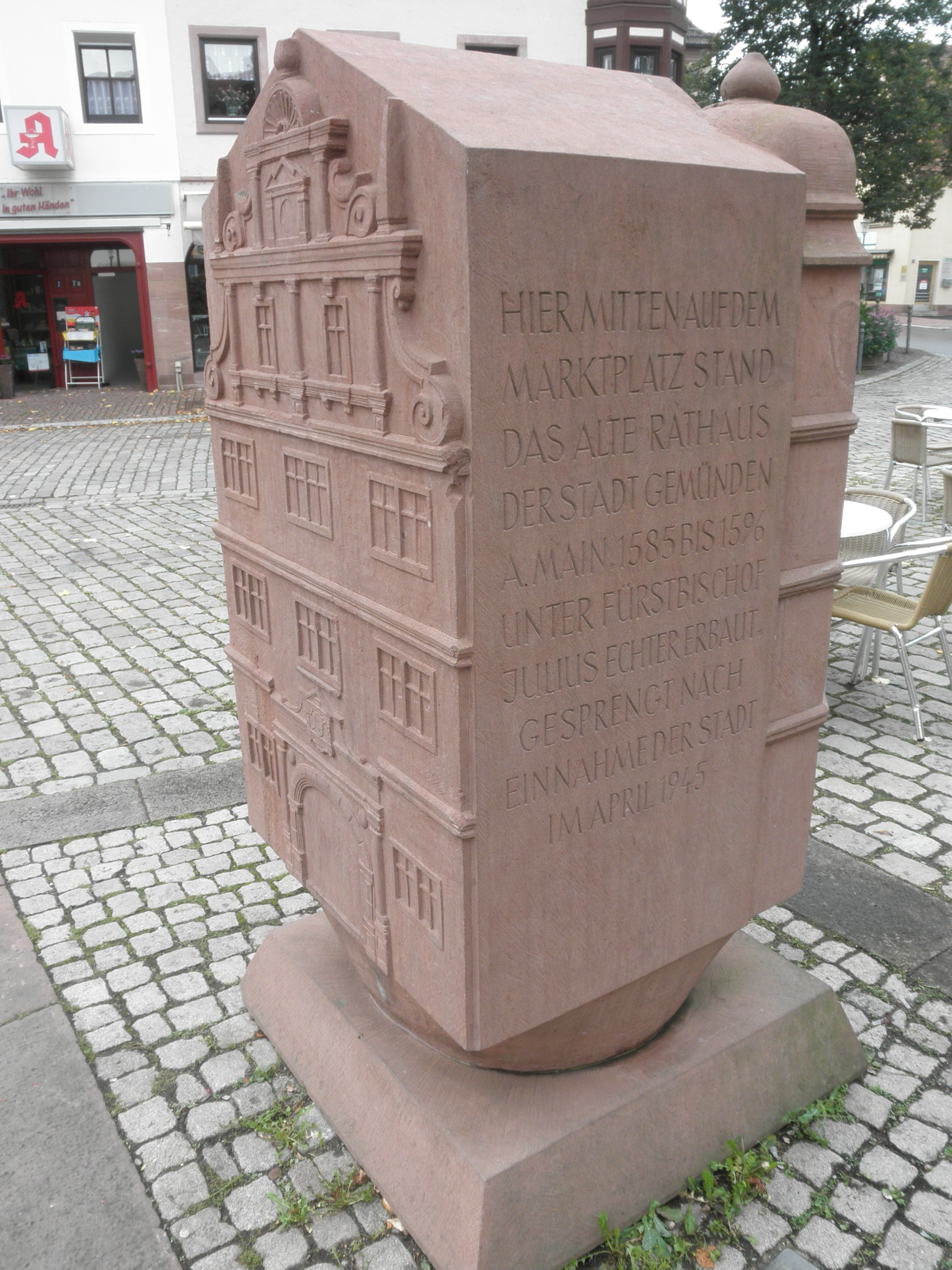 Monument Old Town Hall in Gemünden am Main in Bavaria